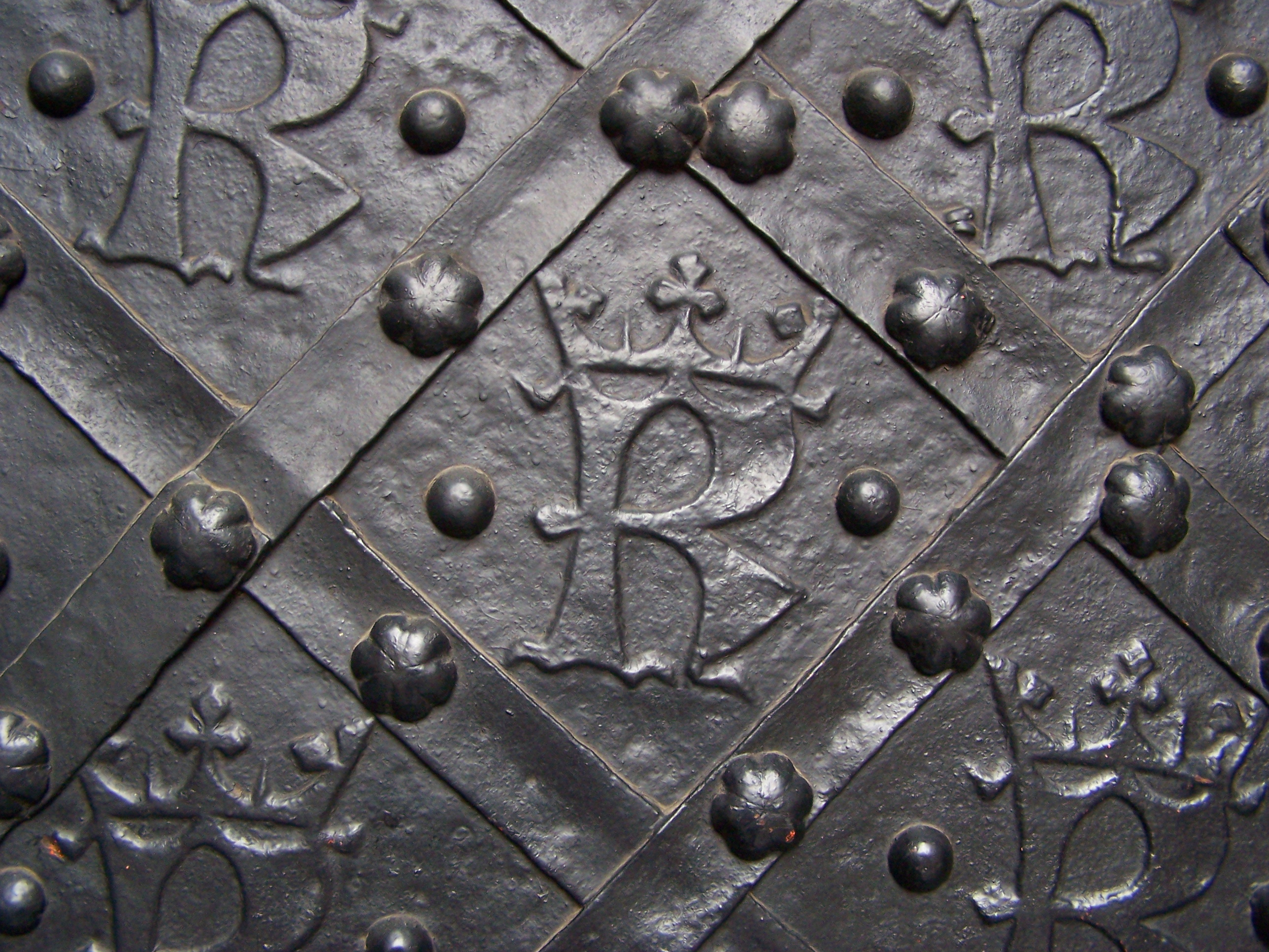 Cathedral door (Wawel,Krakow).